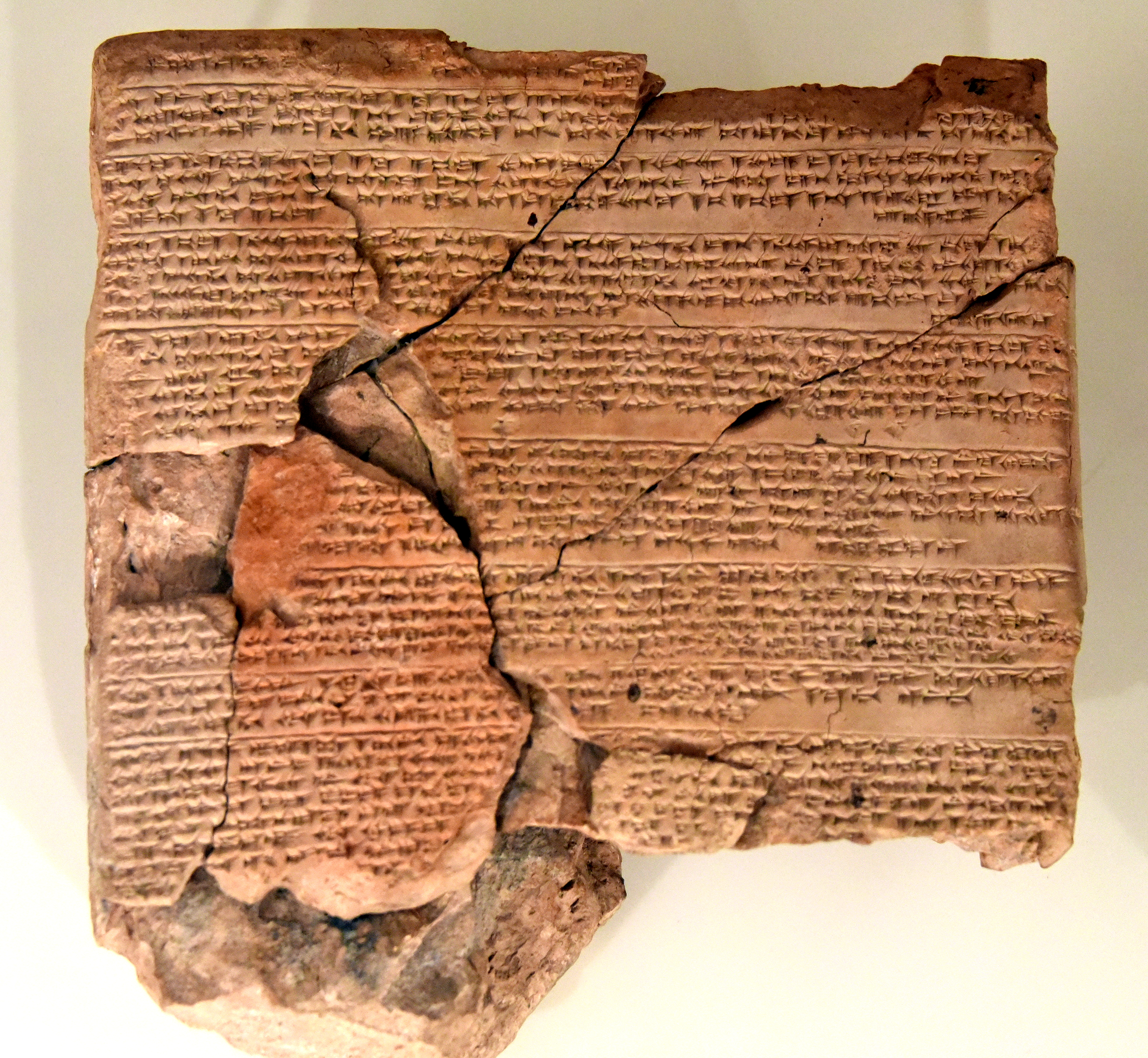 Clay tablet. The cuneiform inscription narrates the Egyptian-Hittite peace treaty between Pharaoh Ramesses II of Egypt (in Thebes) and Ḫattušili III of Hattusa (in modern-day Turkey), mid-13th century BCE. Neus Museum, Berlin, Germany. Vorderasiatisches VAT 7422.